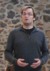 Ulrich Cordes, tenor, rehearsing "Behold and see" from Handel's Messiah in St. Martin, Idstein